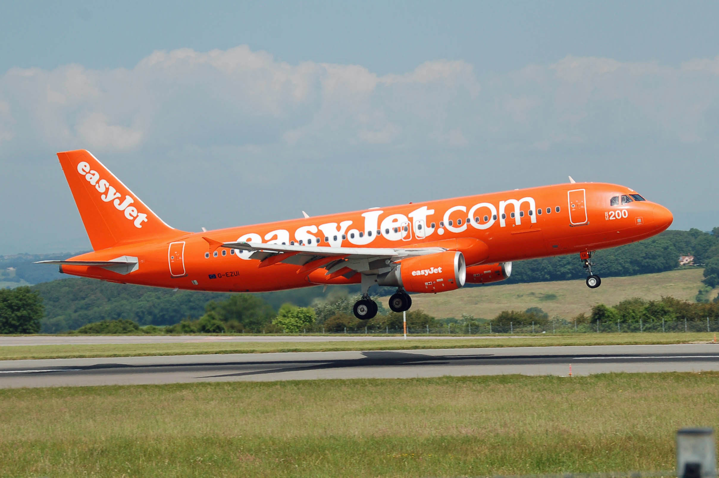 Easyjet Airbus A320-200 (G-EZUI) flares at Bristol Airport, Bristol, England. The "200" marking and the reversed colours celebrate Easyjet's 200th Airbus.